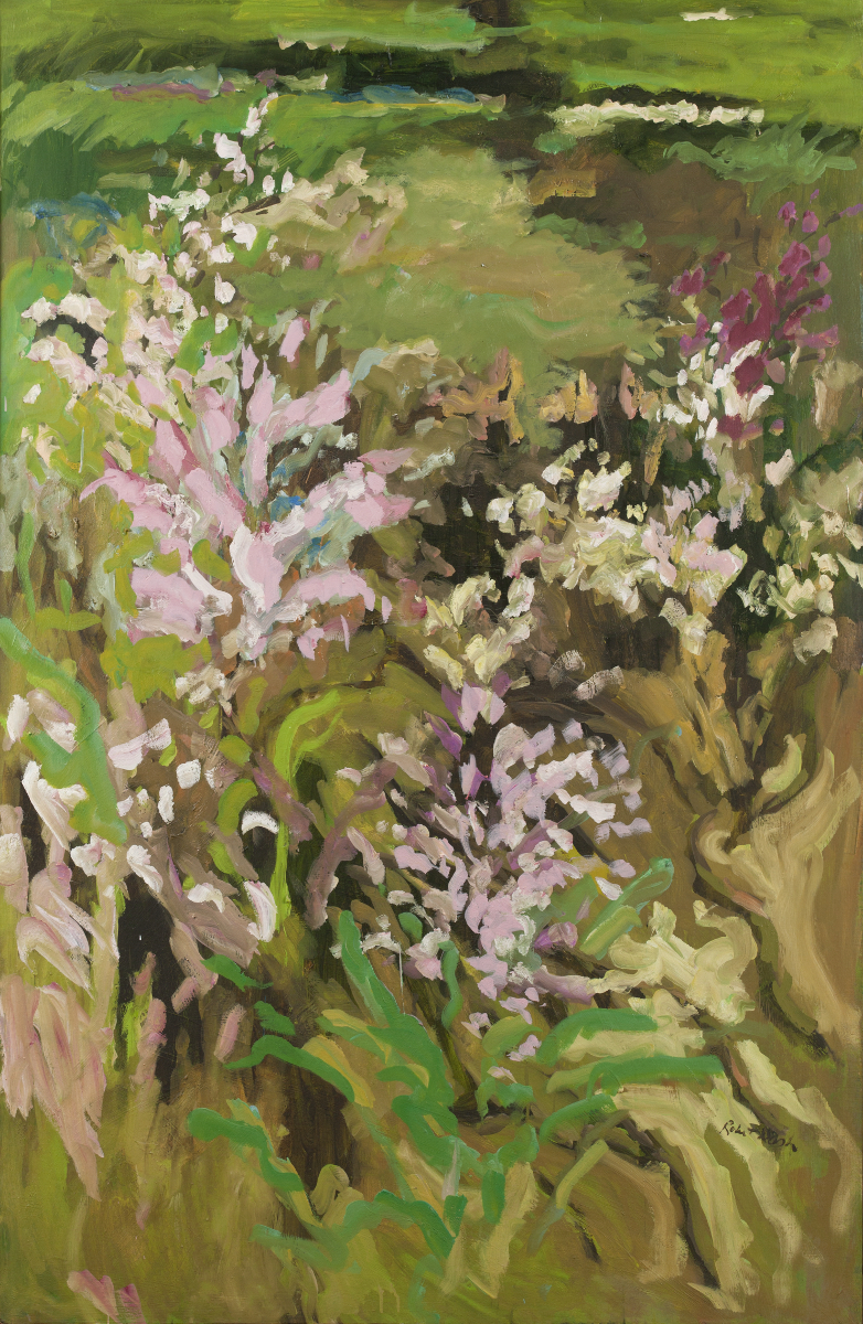 Garden Scene, oil on canvas, Robert Dash, 1921 Gift of the Jean and Graham Devoe Williford Charitable Trust, 2009. The Long Island Museum Collection.